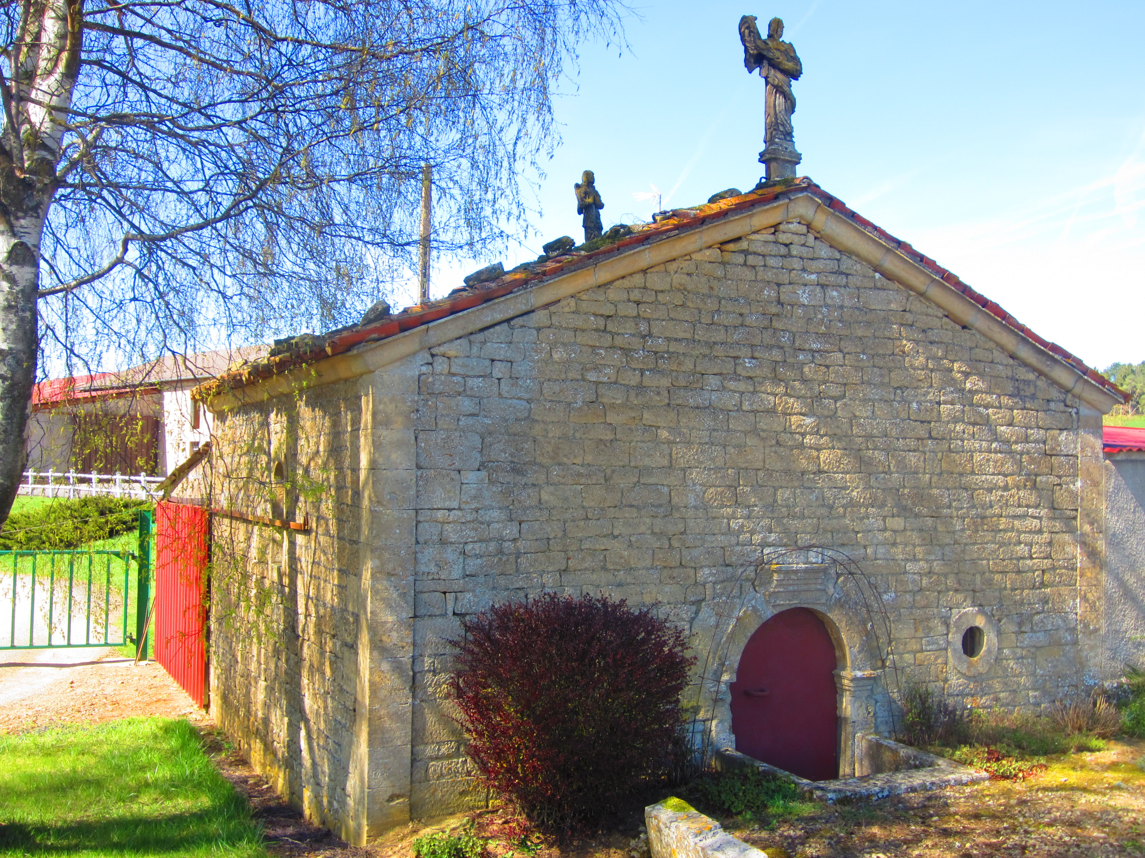 Beuveille chapel